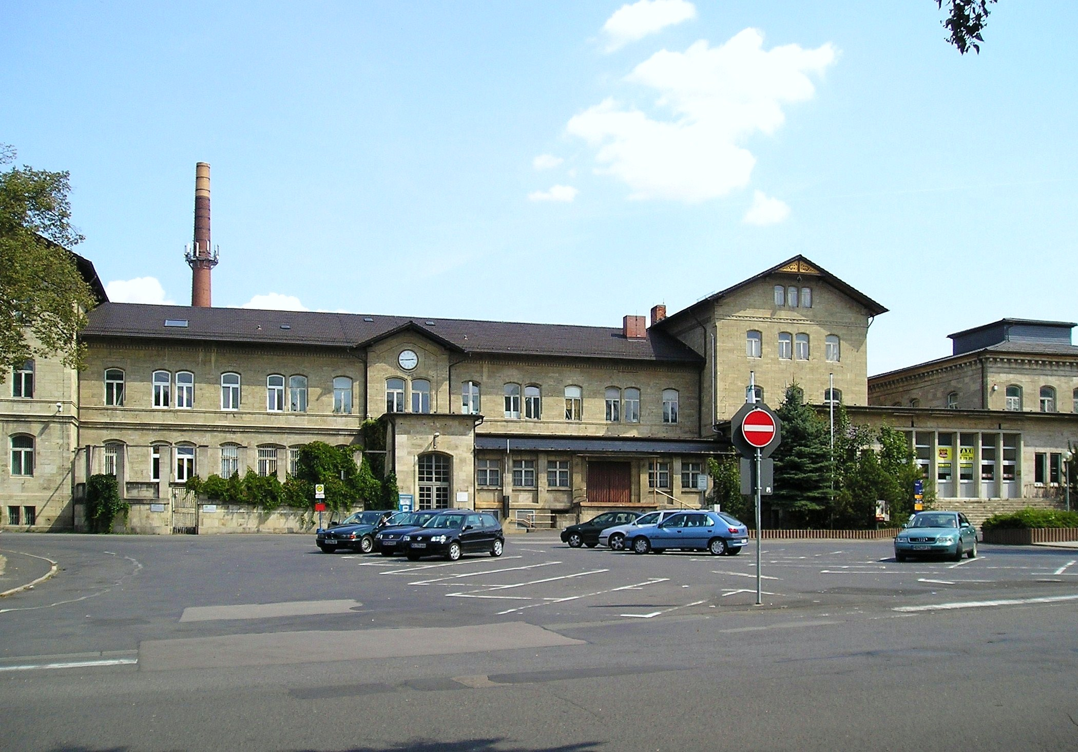 railway station in Meiningen, germany